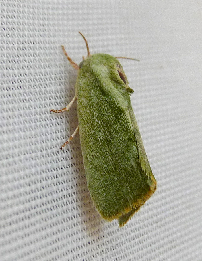 Earias insulana? Egyptian Bollworm